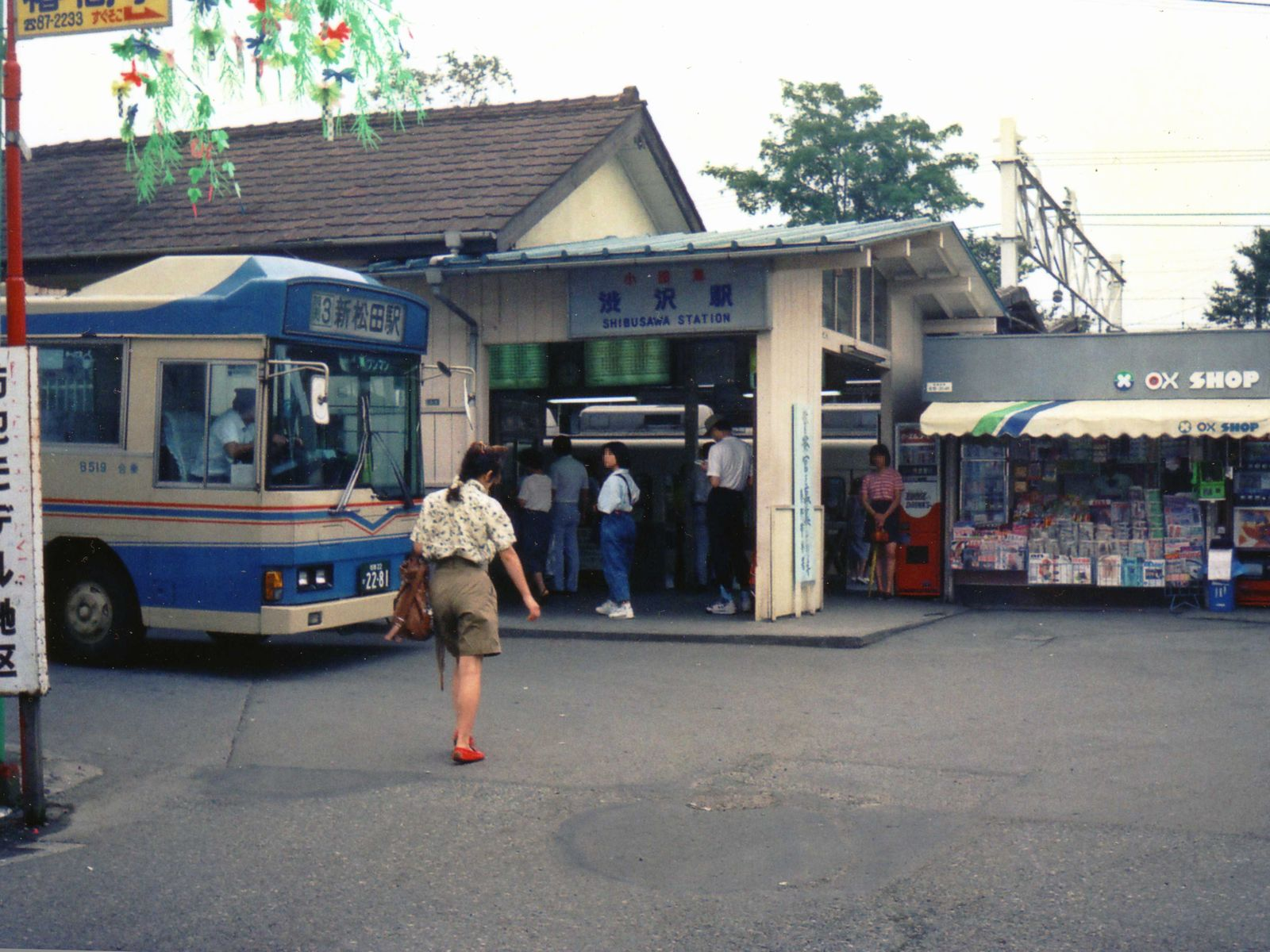 Odakyu Electric Railway, Shibusawa Station